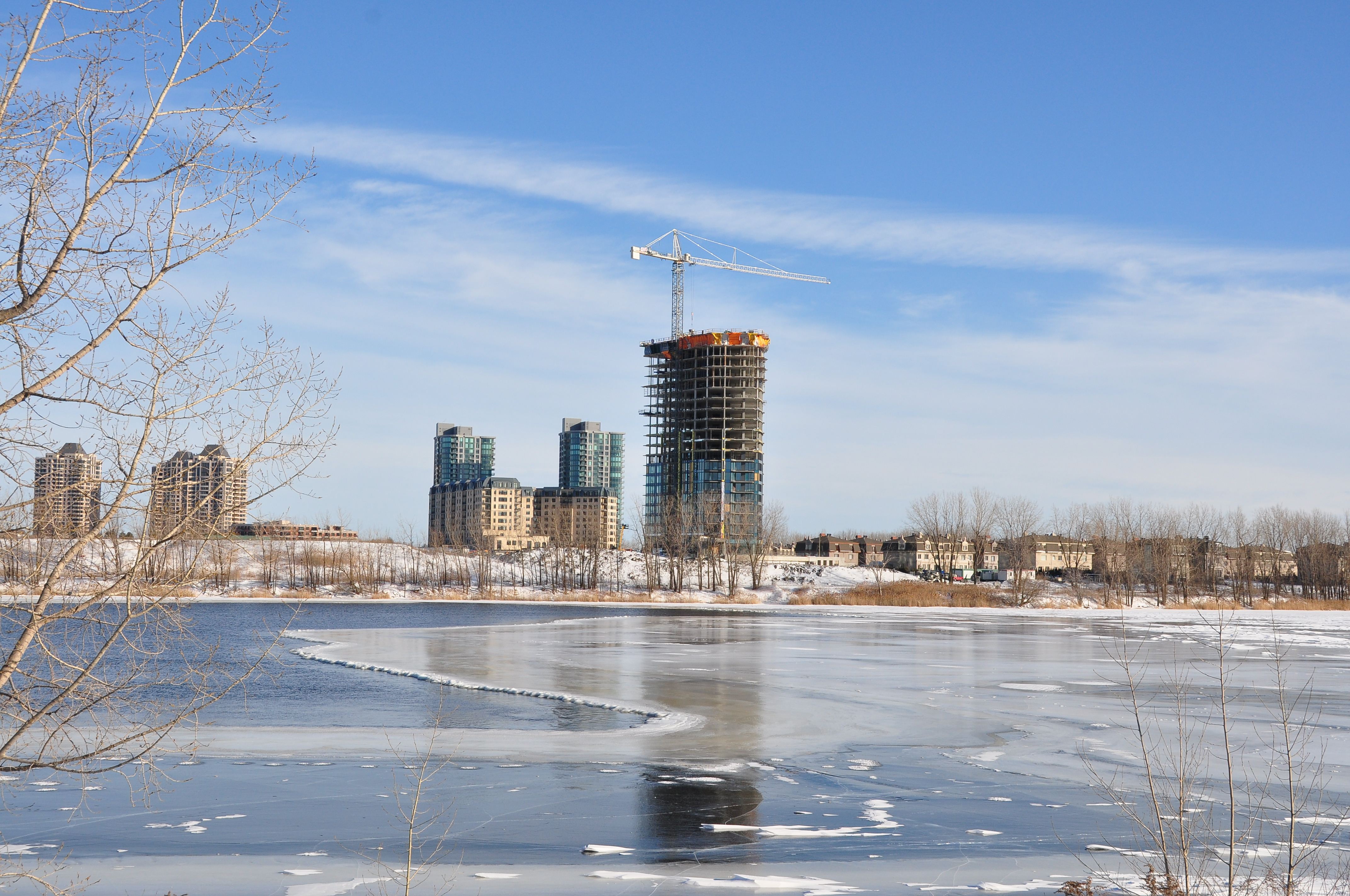 Image of Nuns' Island in Quebec after a winter storm event in February 2013.